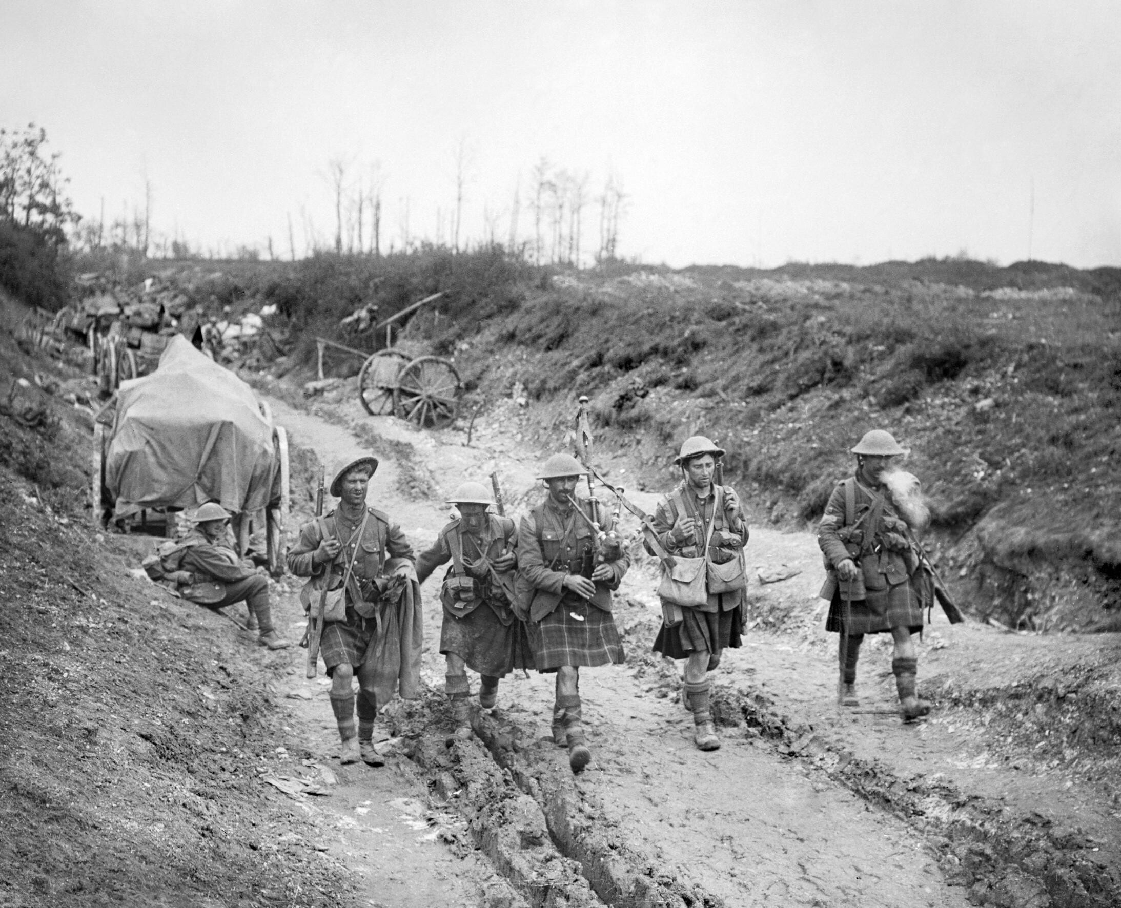 Battle of Bazentin Ridge 14 -17 July: A piper of the 7th Seaforth Highlanders leads four men of the 26th Brigade back from the trenches after the attack on Longueval.